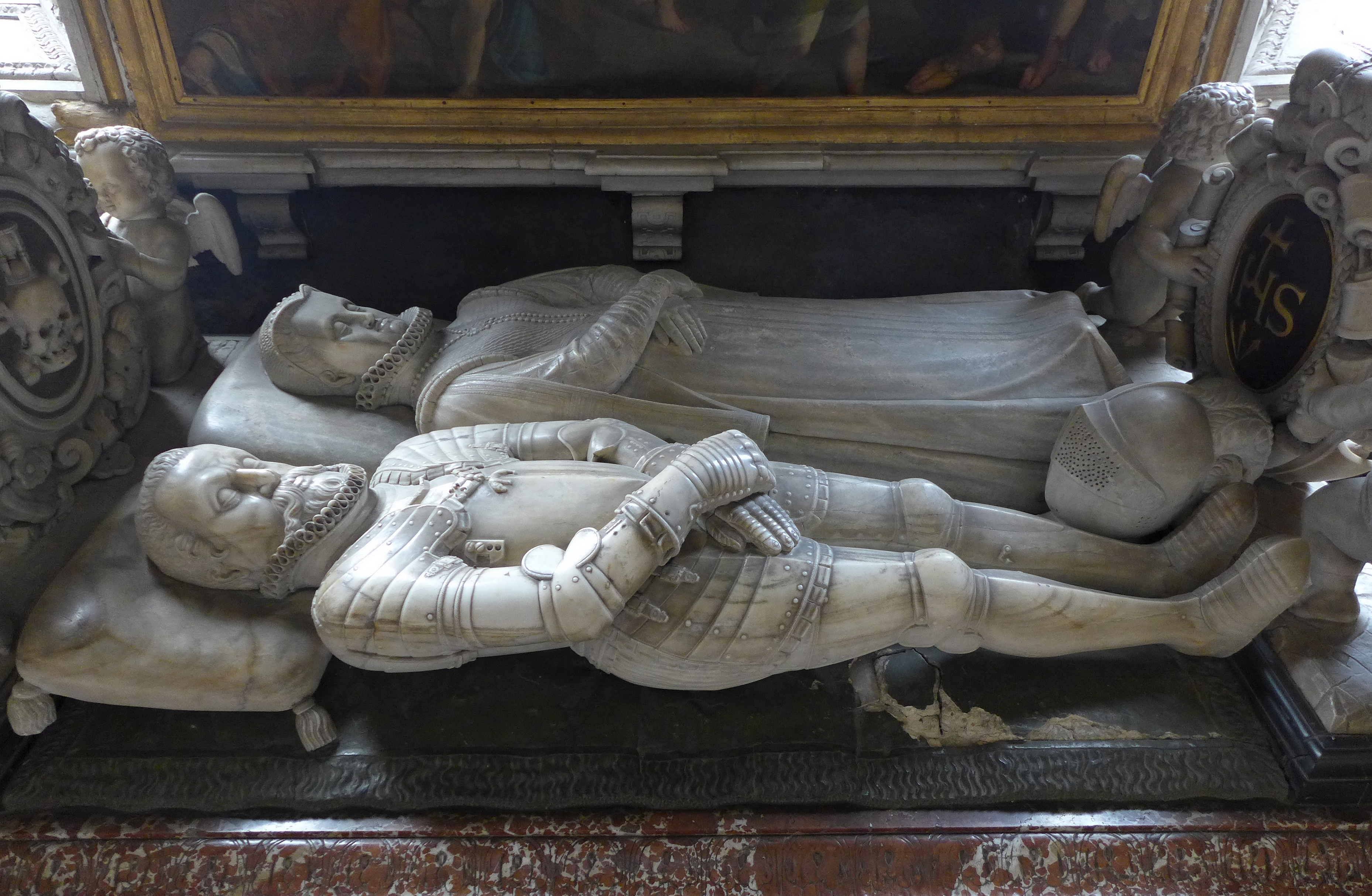 Gisants of Charles II, Archduke of Austria, and his wife Maria Anna of Bavaria, Archduchess consort of Austria; Cenotaph of Habsburger mausoleum, Seckau basilica, Styria, Austria. Dieses Bild wurde anlässlich des österreichischen Tags des Denkmals 2014 in der Steiermark eingereicht.